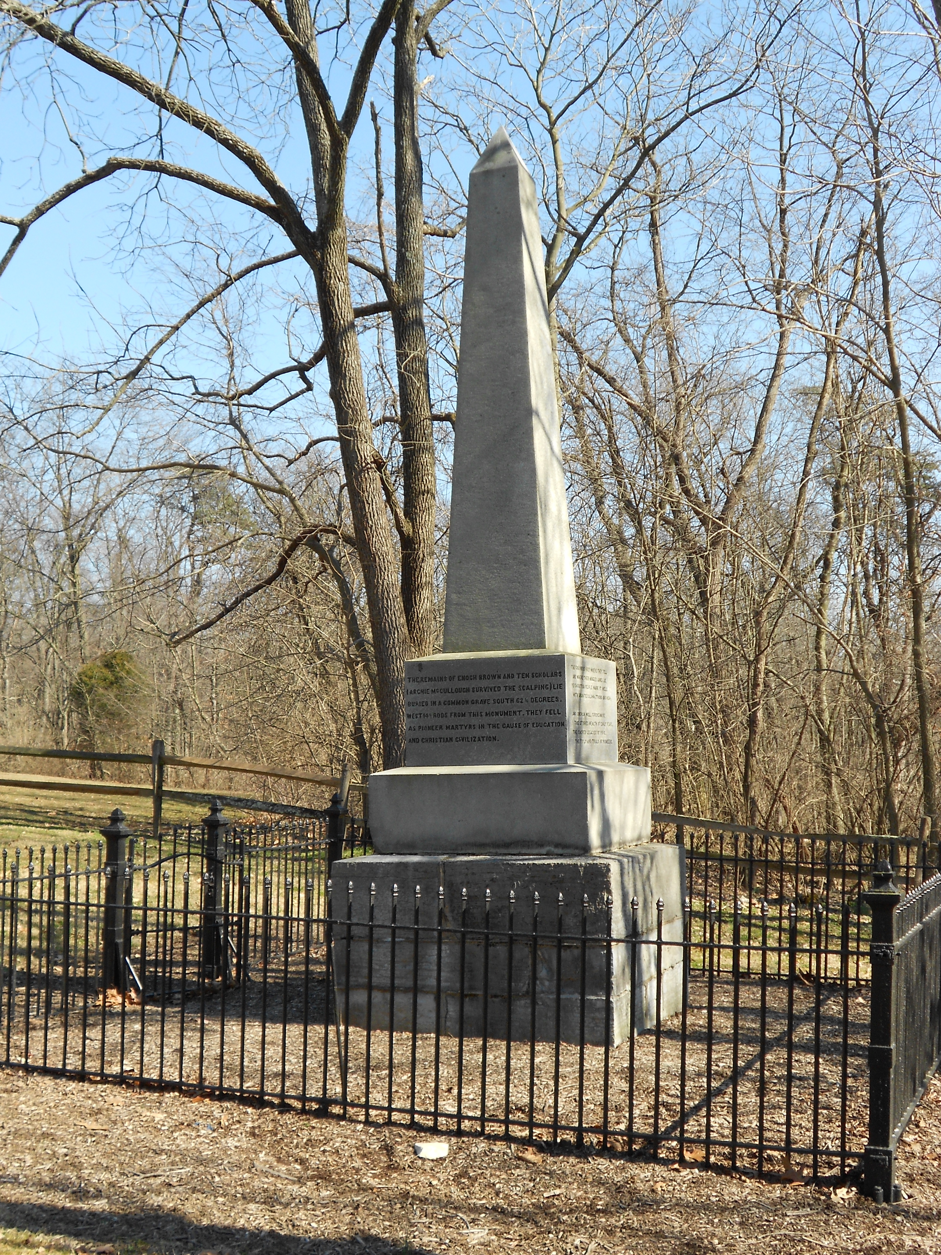 Marker for the "Enoch Brown Massacre" near Greencastle, Pennsylvania. Marker from 1880s, massacre took place in 1764 during Pontiac's War. No Pennsylvania State (PHMC) historical marker or NRHP status.